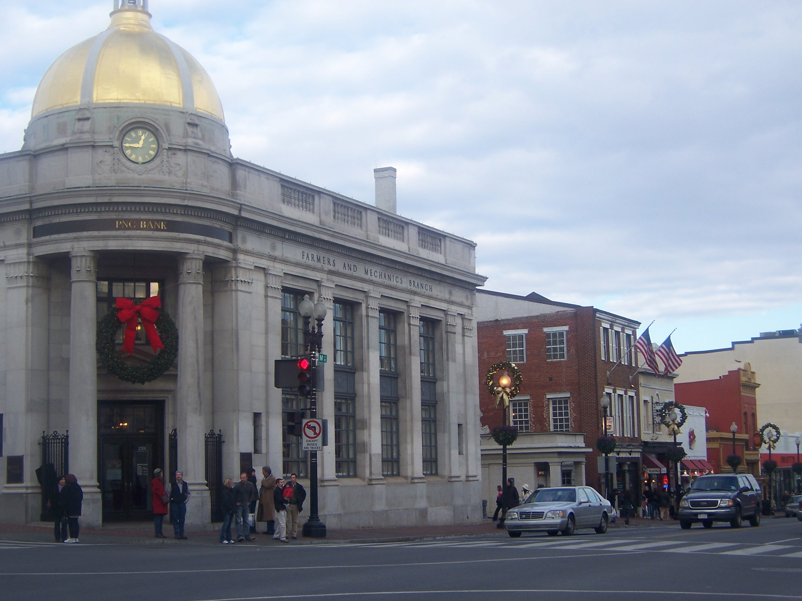 This is a picture of the PNC bank on the corner of M and Wisconsin in Washington DC.